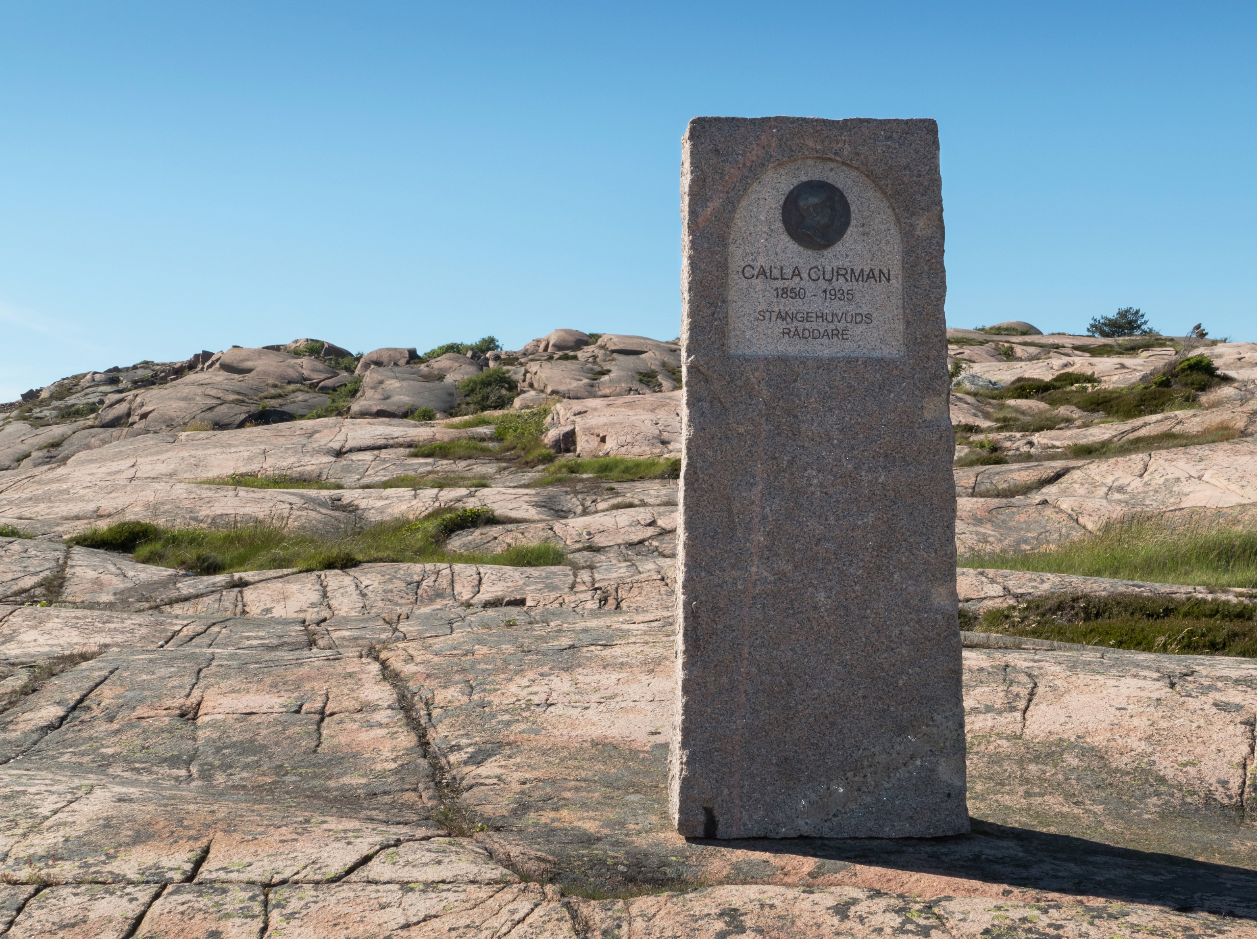 Calla Curman memorial among the glittering cliffs at Stångehuvud nature reserve in Lysekil, Sweden. The red granite cliffs are noted for their colour and the large feldspar and mica crystals (about 10 x 10 mm) that make any part of the cliffs glitter when the sun reflects off them. The cliffs in the nature reserve were saved from quarrying at the beginning of the 20th century by Calla Curman. She bought the whole area and donated it to Royal Swedish Academy of Sciences in 1925.This image illustrates how light, at different angles, is reflected off the feldspar crystals in the rock.